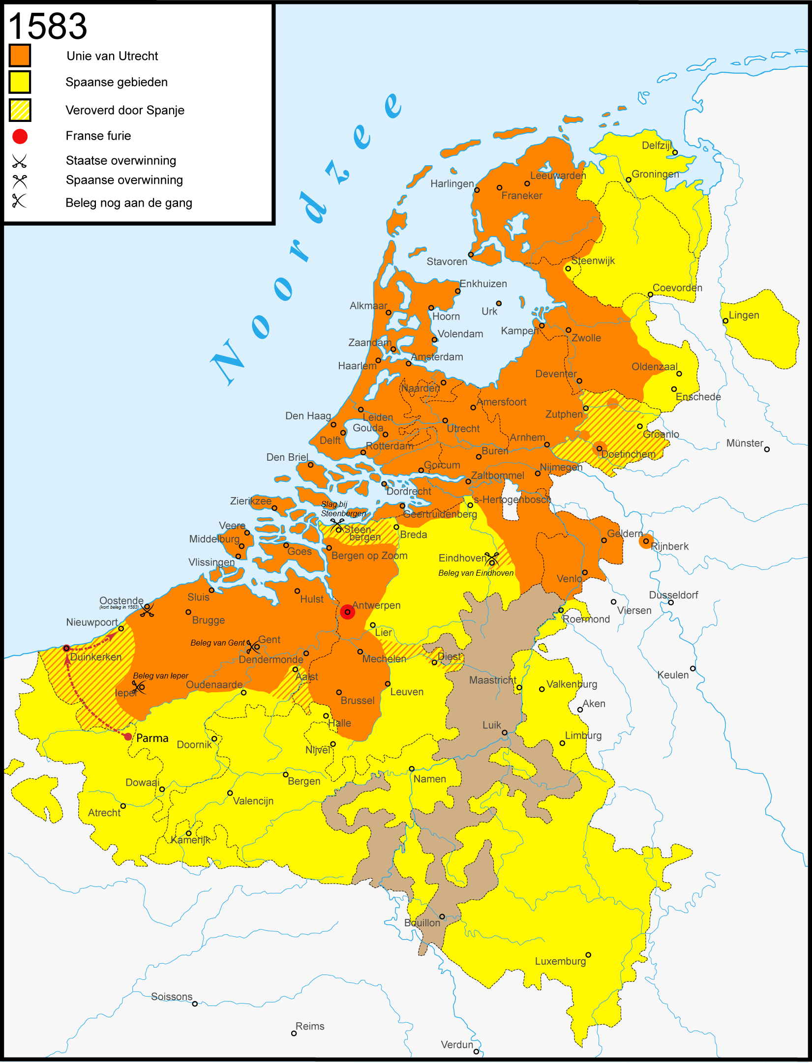 Warprogression in het Eighty Years' War: 1583. Dutch version